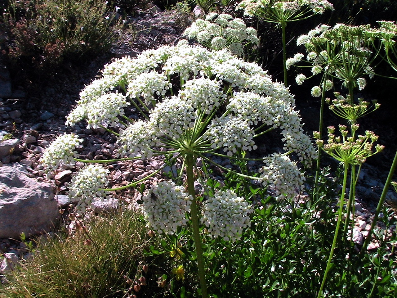 Laserpitium gallicum. In la Bòfia, Guixers (Solsonès - Catalunya). To 1.680 m. altitude